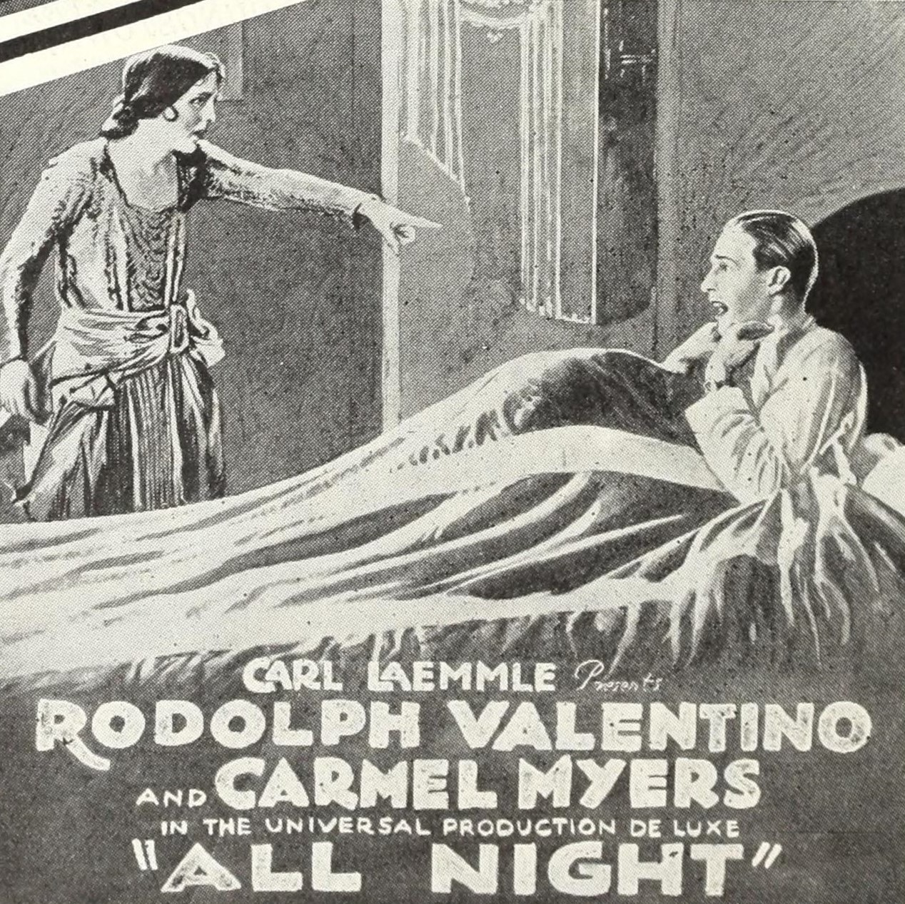 Advertisement for a poster of All Night featuring Rudolph Valentino and Carmel Myers.